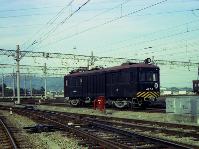 Hankyu Railway Hirai-Shako August 1978